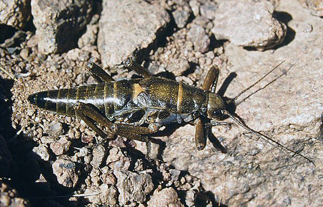 The odorous, and widely if mistakenly feared Chinchemolle. Cordilleran San Juan Province, Argentina. In context at